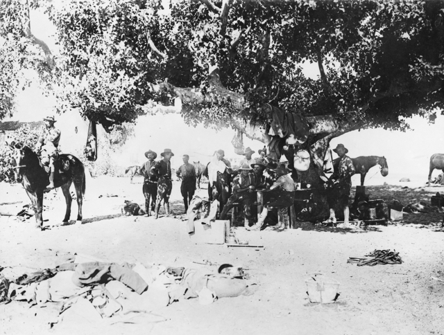 Jaffa, Palestine. c. 1917. The Headquarters of the New Zealand Mounted Rifles near the town.